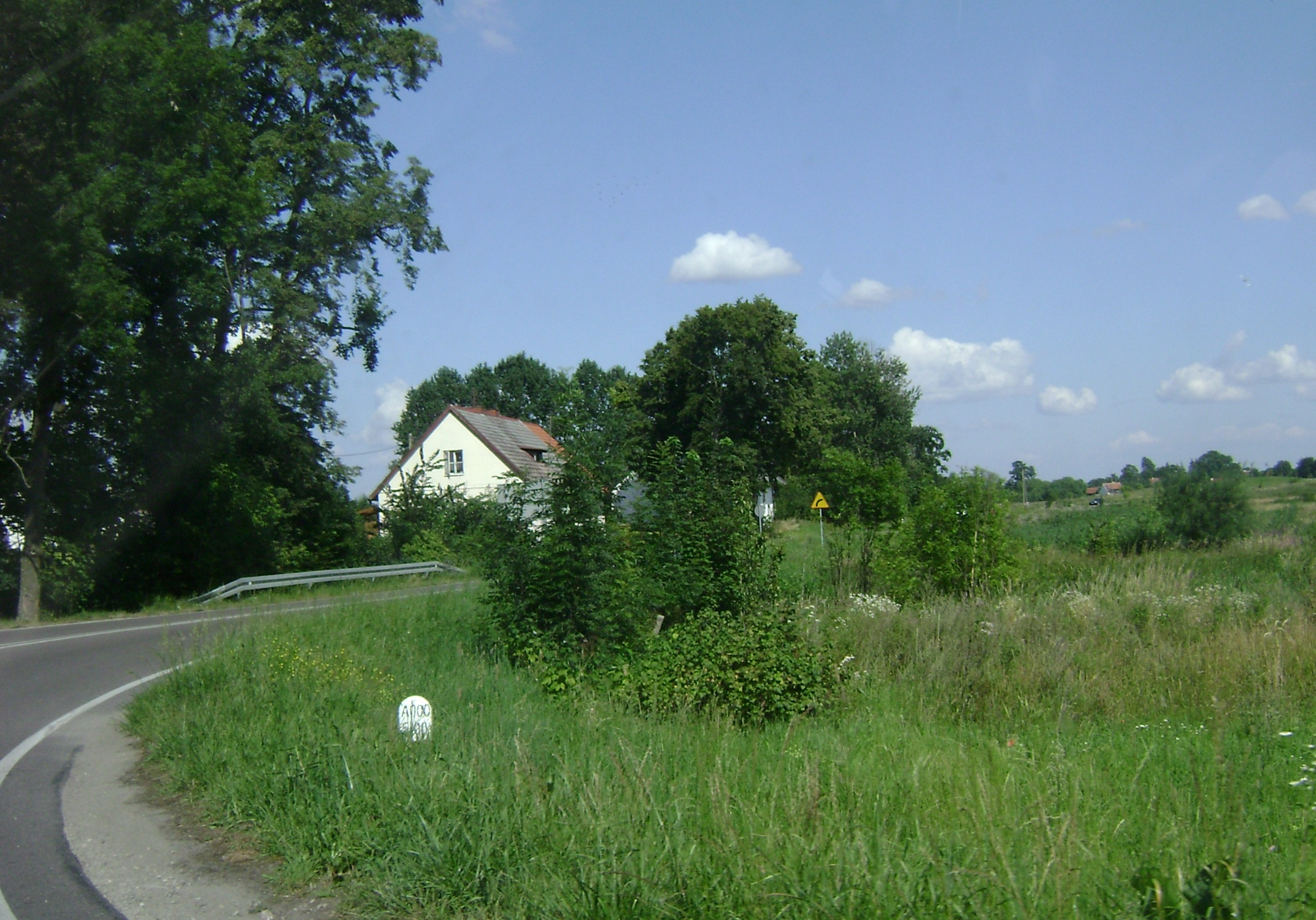 Woźnice.